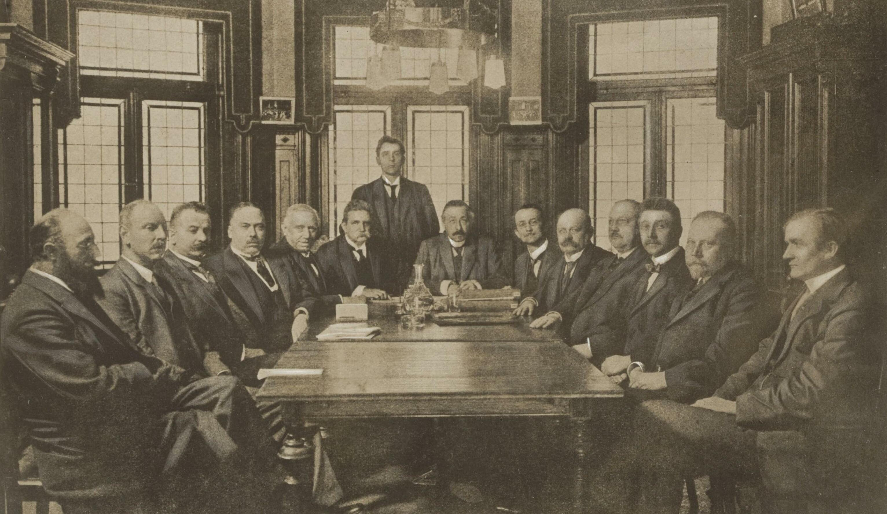 Meeting of the Dutch-Scandinavian Committee preparing the Peace Congress in Stockholm. Left to right: Thorvald Stauning (Denmark), Willem Albarda (the Netherlands), Johan (?) Söderberg (Sweden), Jakob (?) Vidnaes (Norway), Henri van Kol (the Netherlands), Hjalmar Branting (Sweden) and Arthur Engberg (standing)(Sweden), Pieter Jelles Troelstra (the Netherlands), Camille Huysmans (Belgium), Lindquist (Sweden), Ole O. Lian (Norway) and Nillsen (Norway), Madsen (Denmark), Müller (Sweden). Date: May 1917.